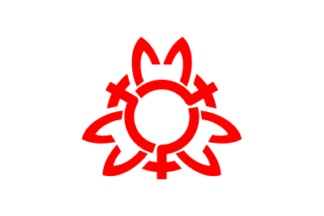 Flag of Ina Saitama